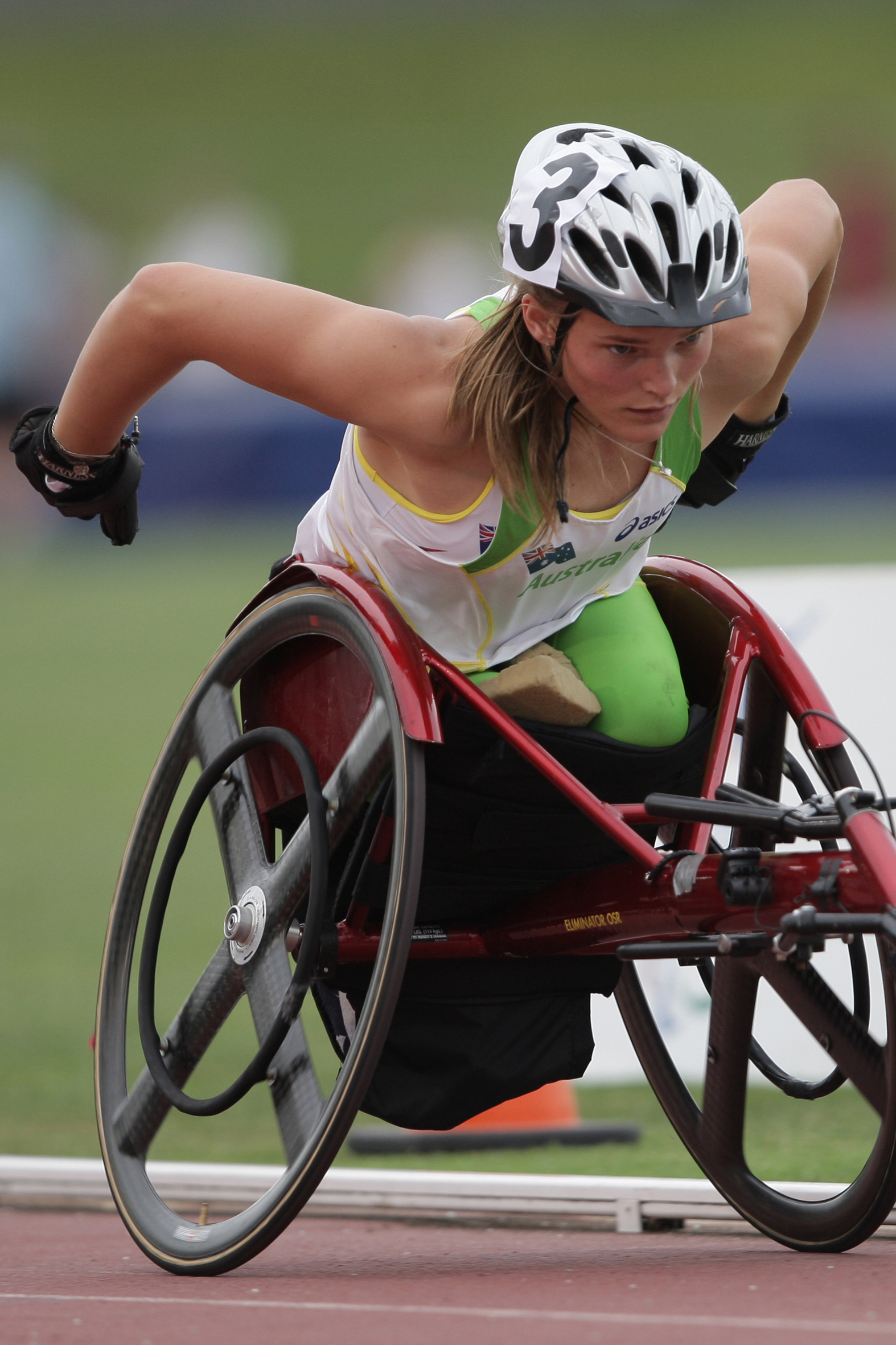 Australian Paralympic wheelchair track athlete Jemima Moore competes at the 2011 World Championships warm-up meet in Sydney in January 2011